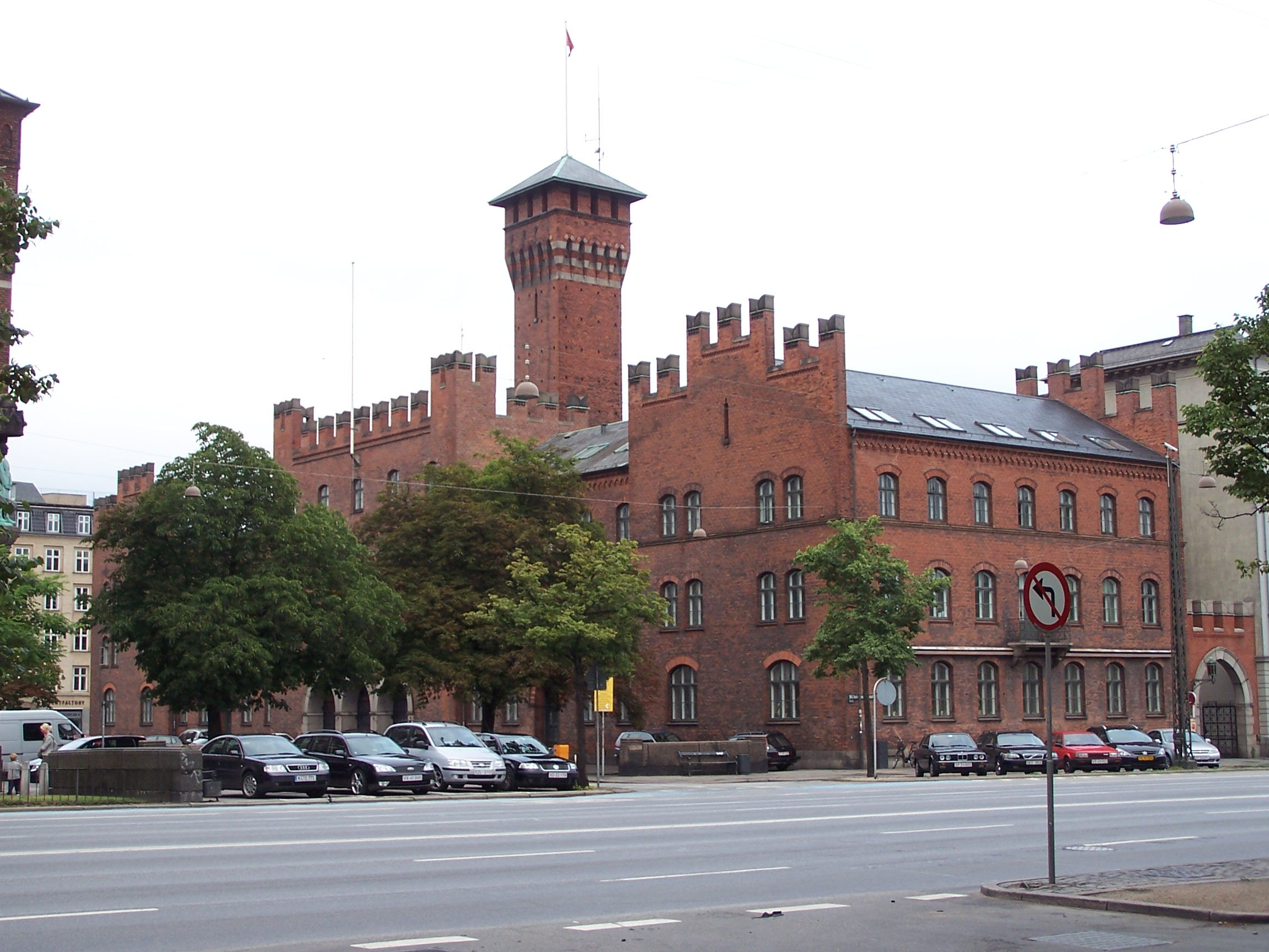 Central fire station of Copenhagen.